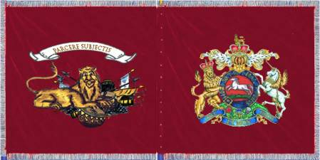 Dachenhausen Dragoons 3rd Eskadronstandarte